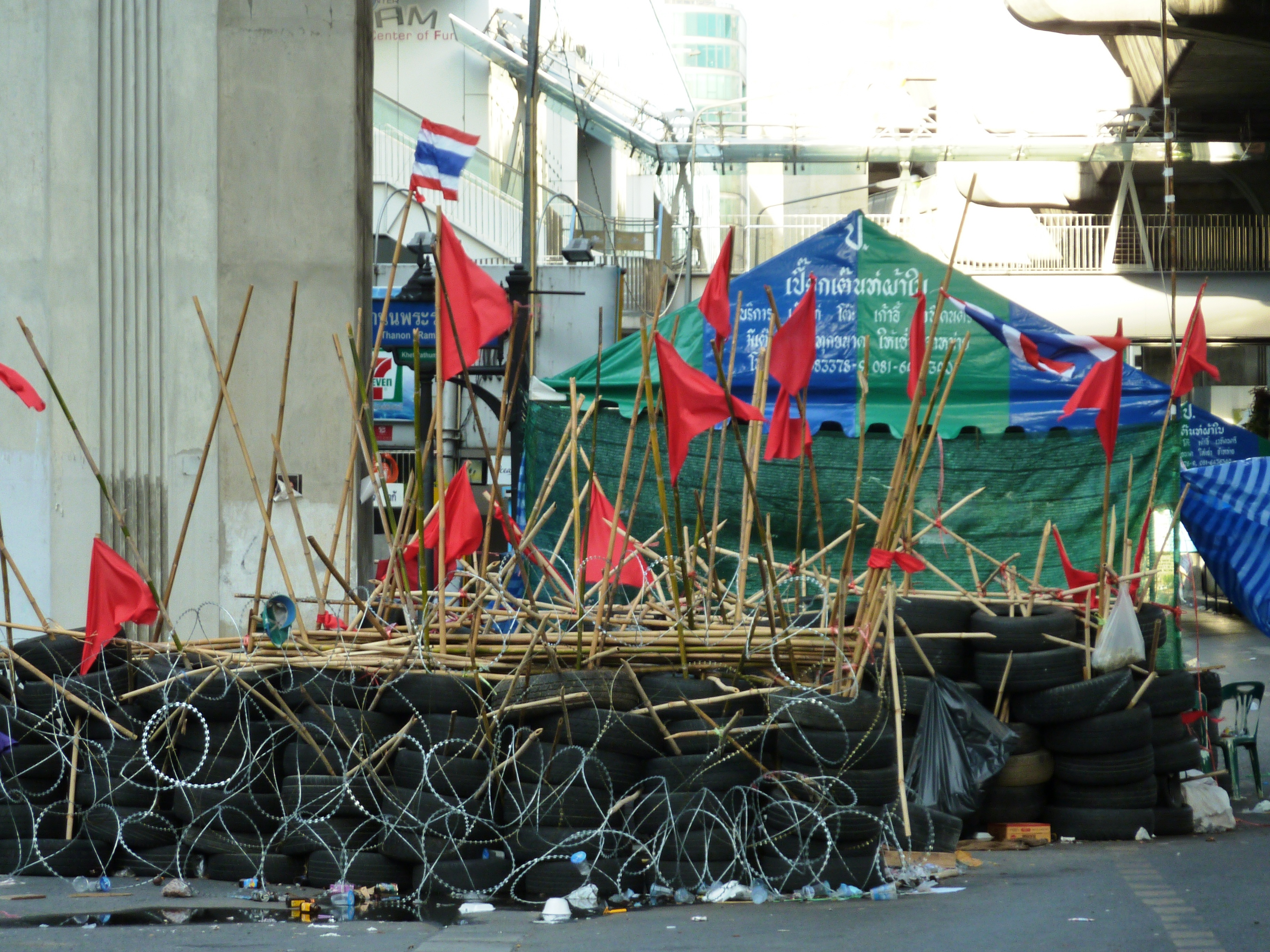 The redshirts left everything behind them when they were herded out of Rajprasong in downtown Bangkok on the morning of Wednesday, 19 May 2010.